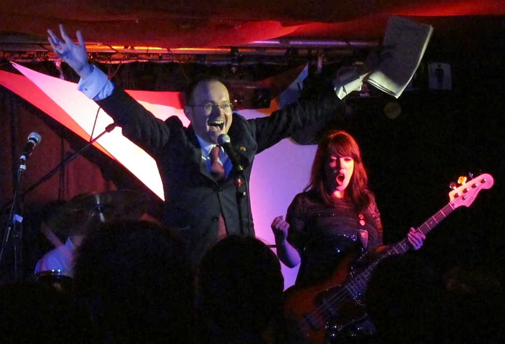 Martin White and Danielle Ward on stage at Karaoke Circus at The Ginglik, April 26th 2010.